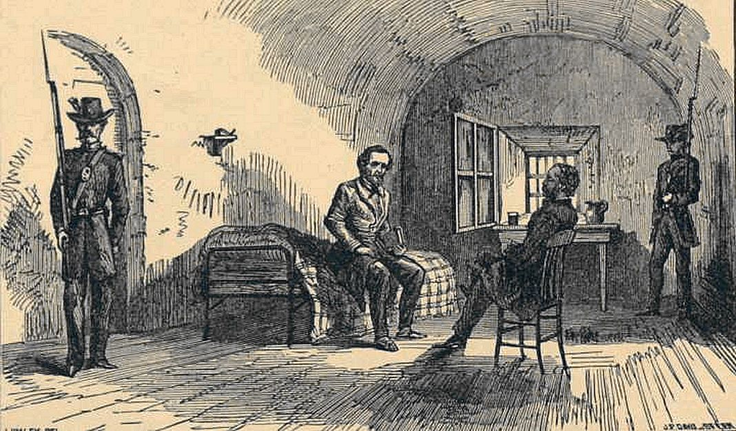 Early illustration of Jefferson Davis in prison